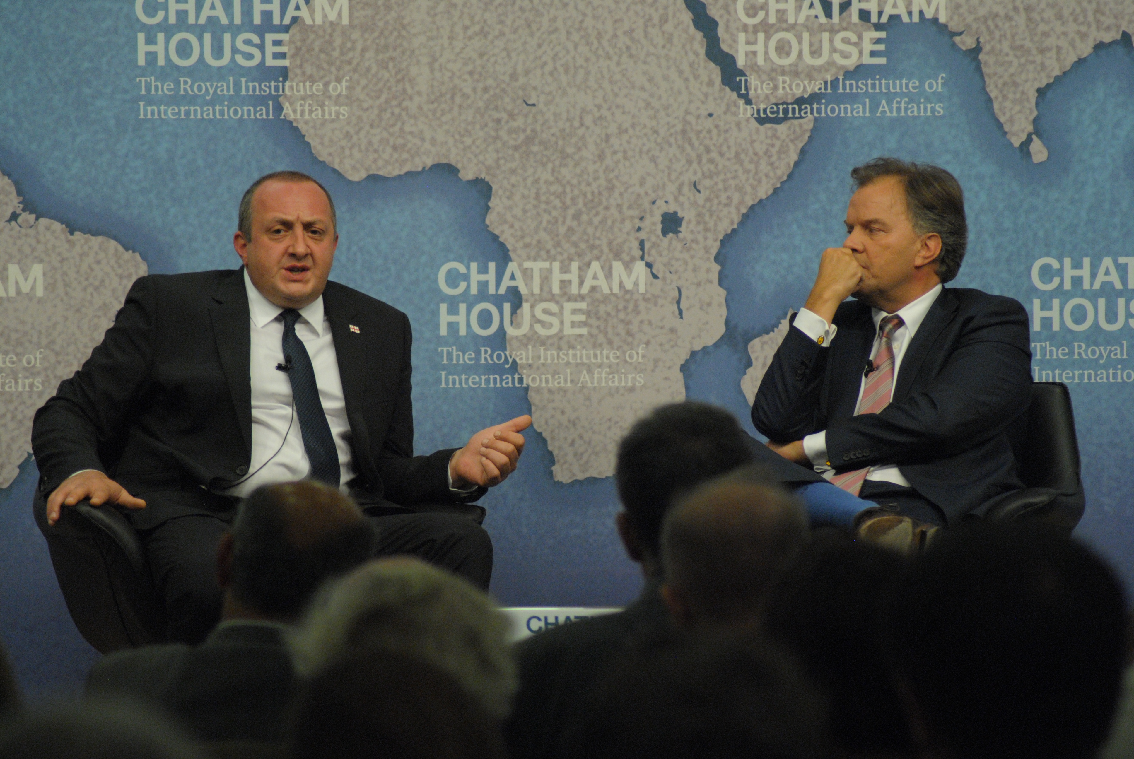 Giorgi Margvelashvili, President of Georgia, Matt Frei, Europe Editor, Channel 4 News, 3 September 2014 cht.hm/1lLzPvd